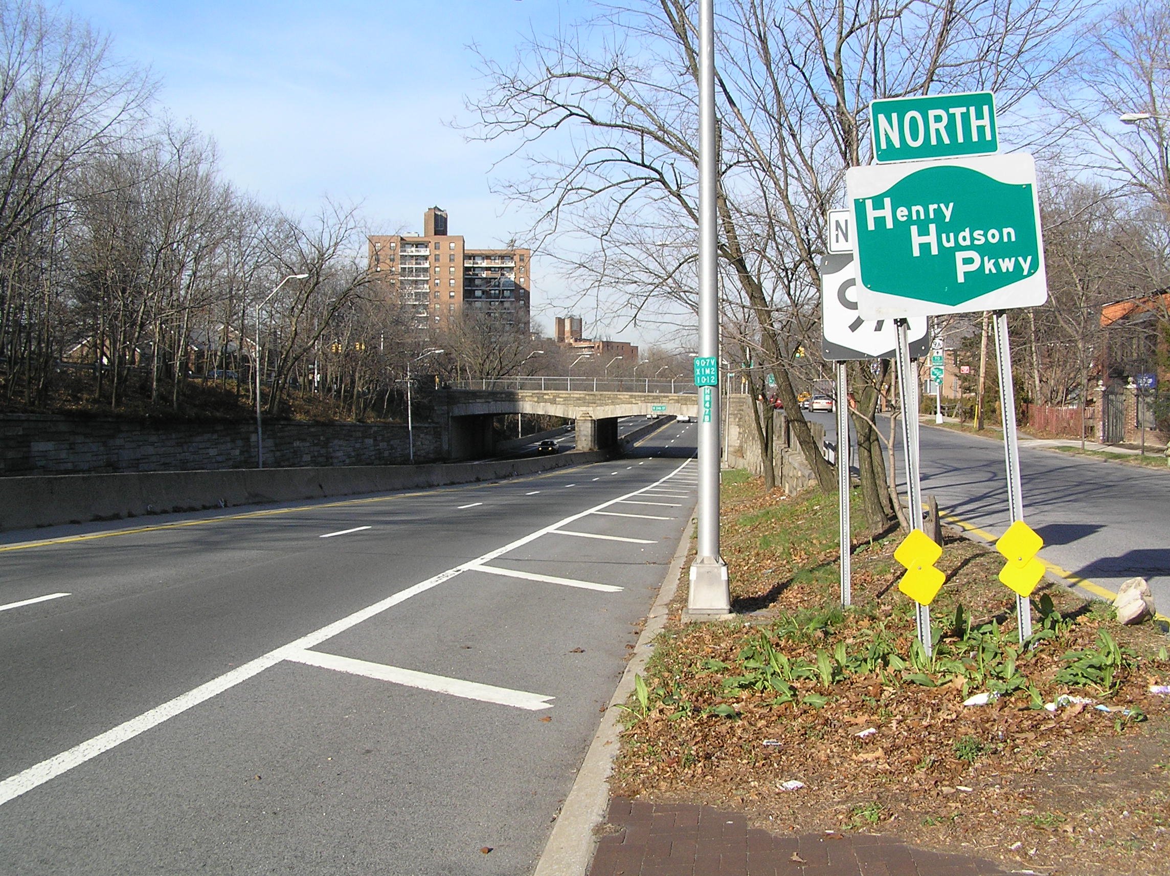 I took this photograph of the Henry Hudson Parkway in Riverdale looking north towards 246 St on January 11, 2007. GNU Free Documentation License